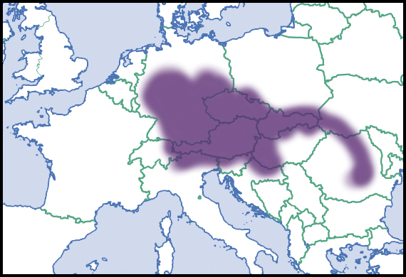 Semilimax semilimax (Férussac, 1802). Distribution in Europe, scientific state of knowledge of 2012. Source description in English. Light colour indicated rare occurrences or regions where the species could eventually be expected to occur. Dark colour indicated relatively reliable occurrences, as well as regions where the species was expected to occur, and where the species was not known to be extremely rare. Dark colour indications were not necessarily based on published records. Species summary in AnimalBase